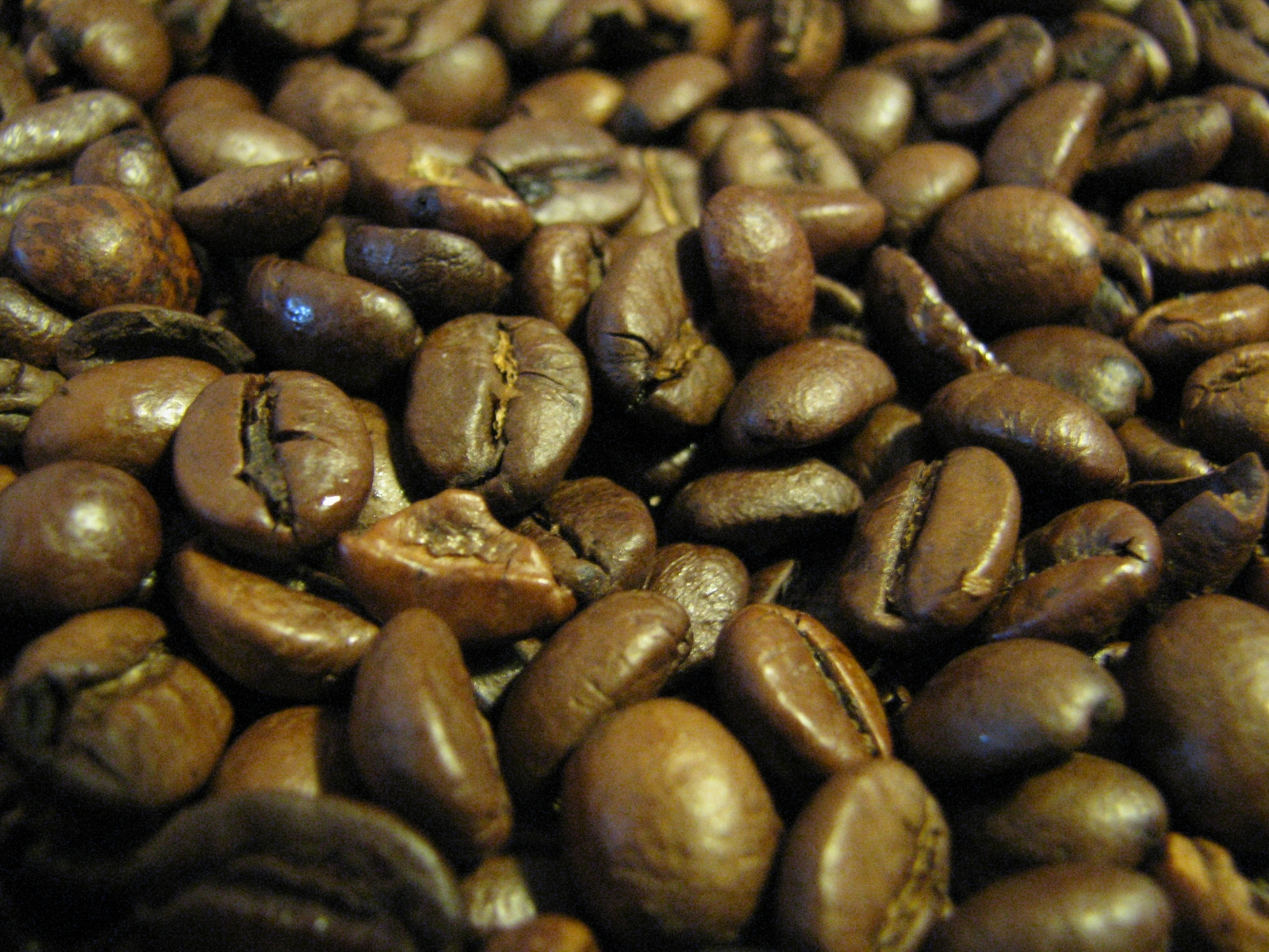 roasted coffee beans